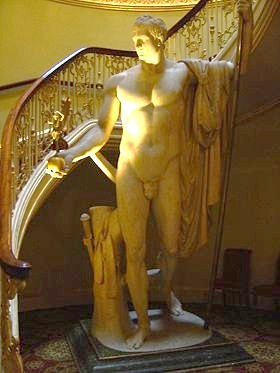 Antonio Canova (Italian, 1757-1822): Napoléon en Mars désarmé et pacificateur (Napoleon as Mars the Peacemaker), 1802/1806, nude marble statue, 325 cm, Apsley House, London. There is a bronze copy at the Accademia di Brera in Milan made in 1811 (Napoleon as Mars the Peacemaker). - enhanced version of existing picture